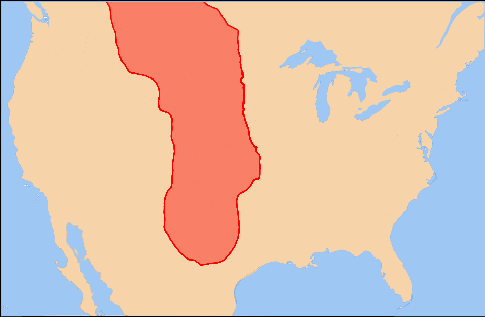 A map of the Great Plains, shaded in transparent red.